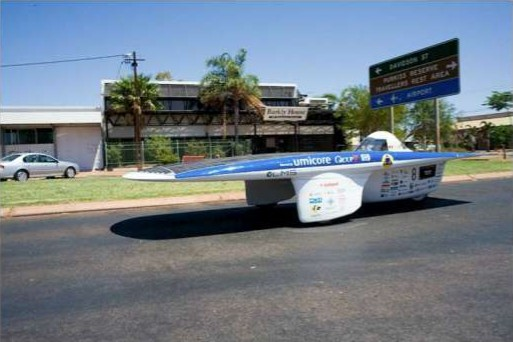 Umicore Infinity is the name of the solar race car of the Belgian Umicore Solar Team (based in Leuven) in this year's World Solar Challenge.